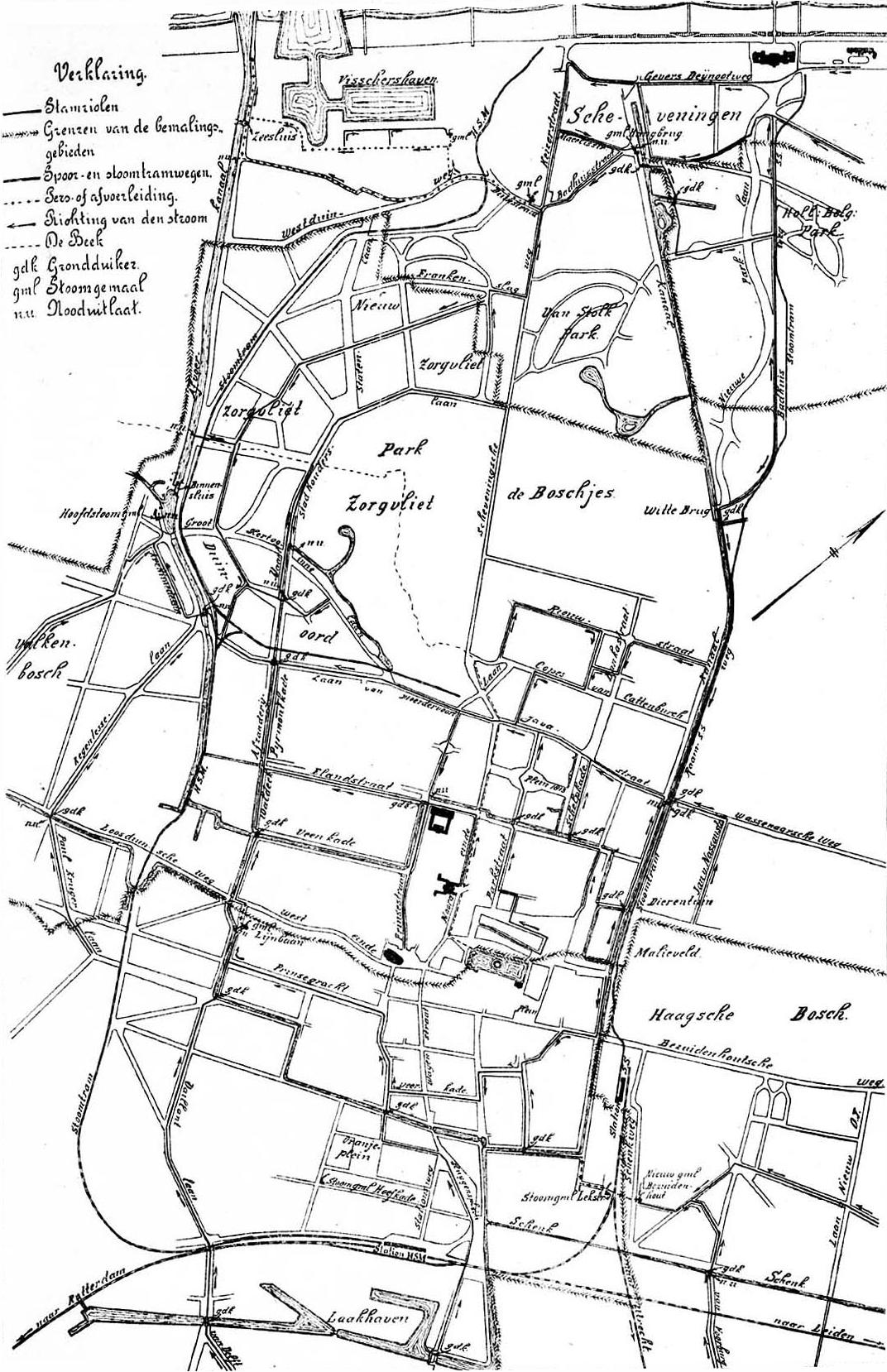 The Hague sewer system.